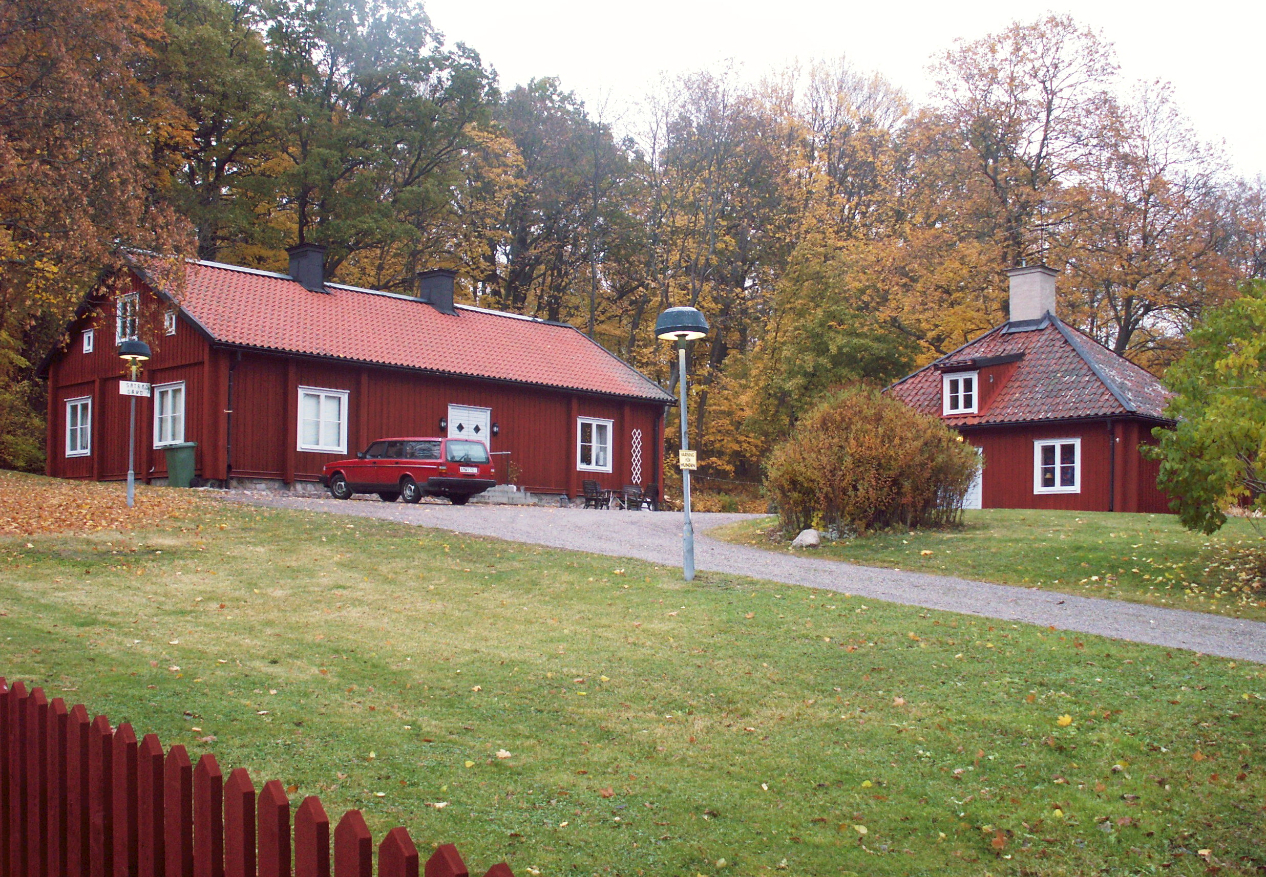 A picture of the Sätra estate in southern part of Stockholm, Sweden